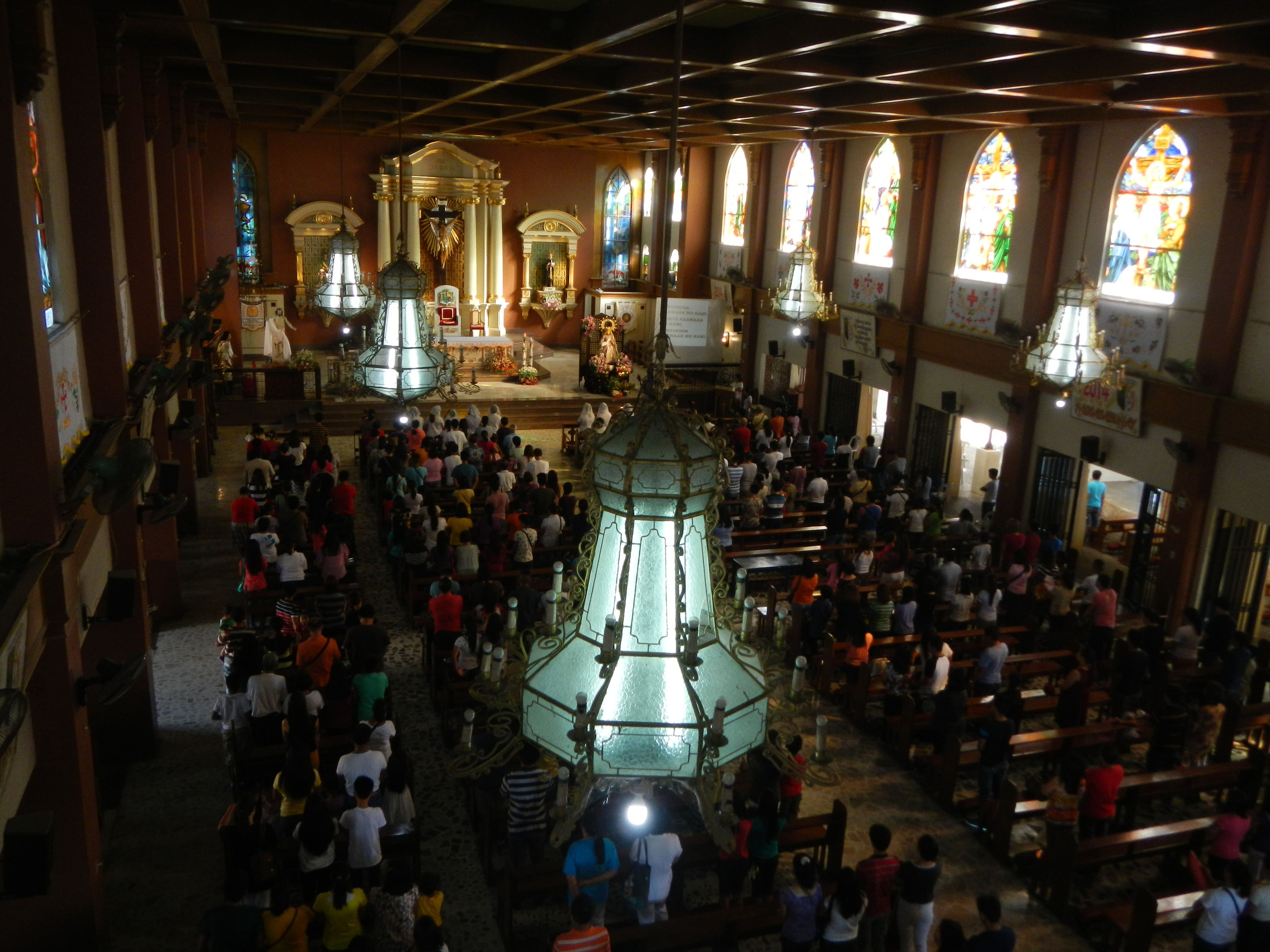 Saint Nicholas of Tolentino Cathedral (Cabanatuan City) - InteriorCabanatuan City, Nueva Ecija taken with very good lights Sunday Holy Mass, Liturgy afternoon May 17,2015 Lord's Ascension.